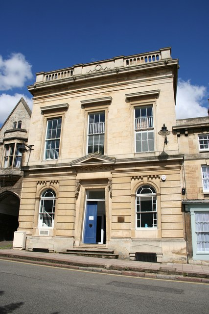 Camera Obscura House Otherwise the former Stamford Institution, now Castle Hill School. Built in 1842 in a Graeco-Egyptian style by Edward Browning